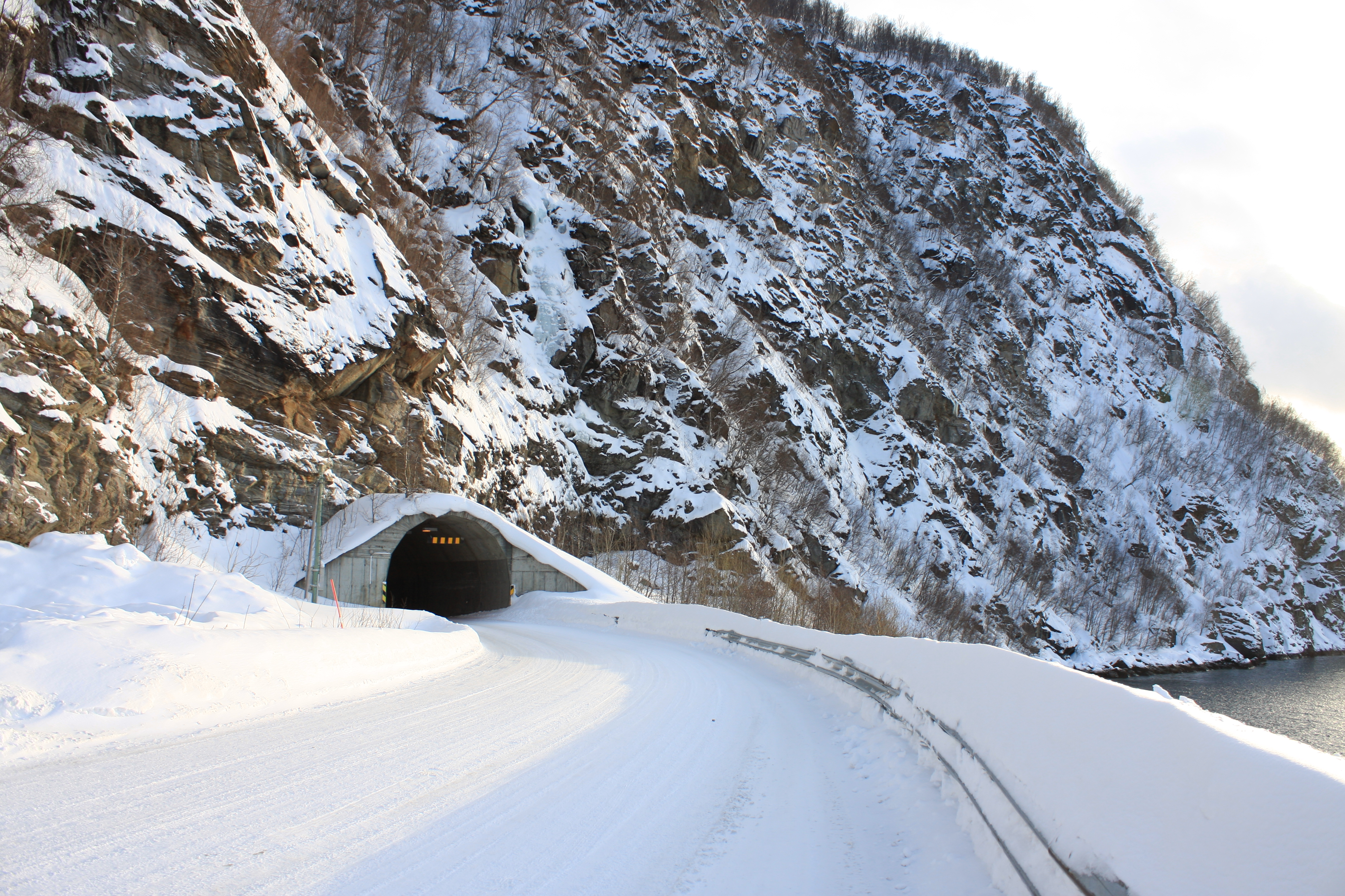 Bjørgatunnelen (road tunnel) - Northeast Entrance.